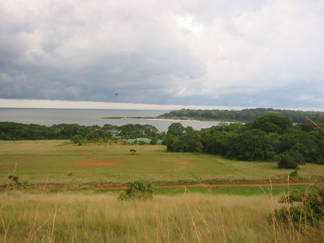 Bugala Island, Lake Victoria, Uganda. Usable with attribution and link to